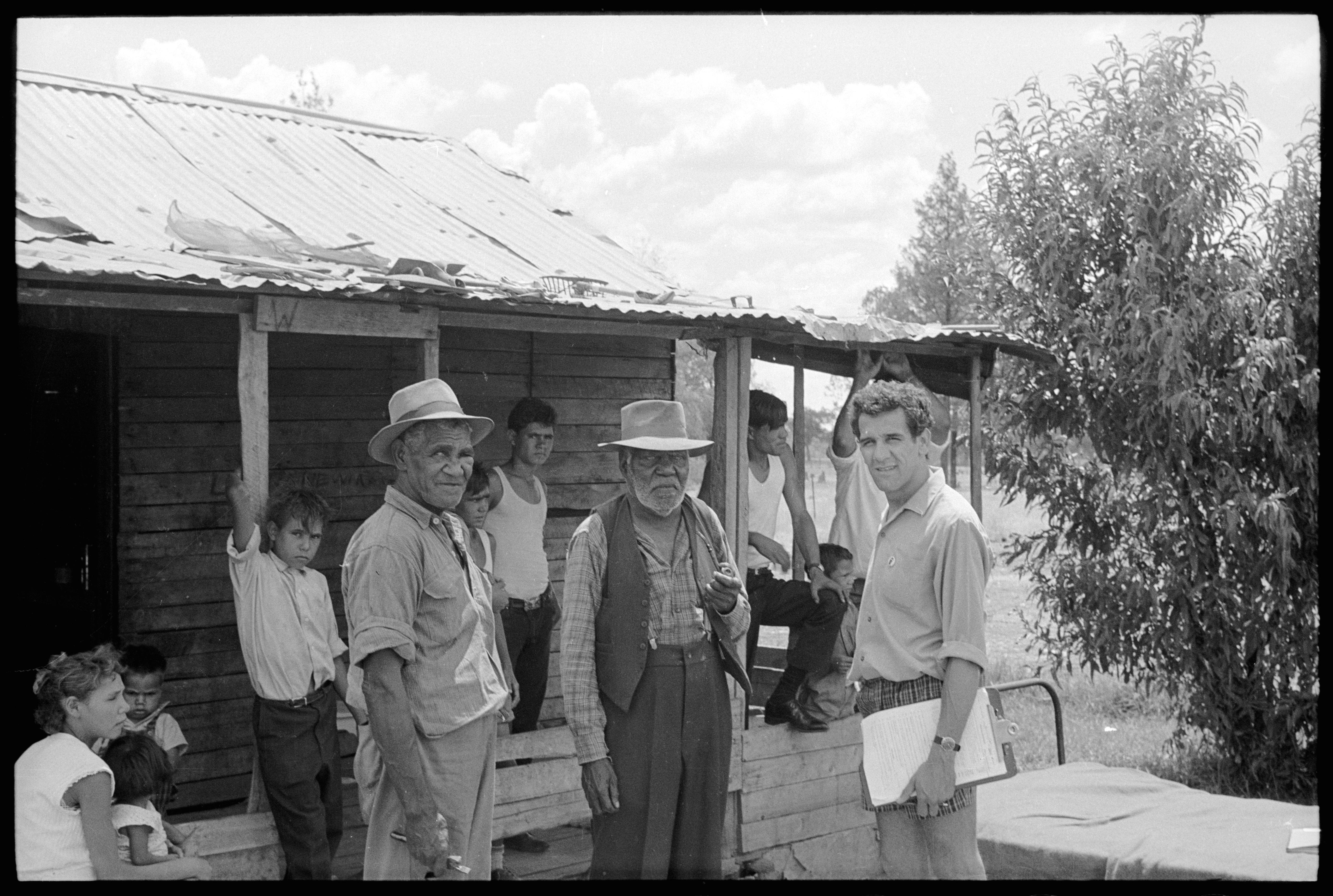 Aboriginal activist Charles Perkins talking with Aboriginal residents at Moree in Australia